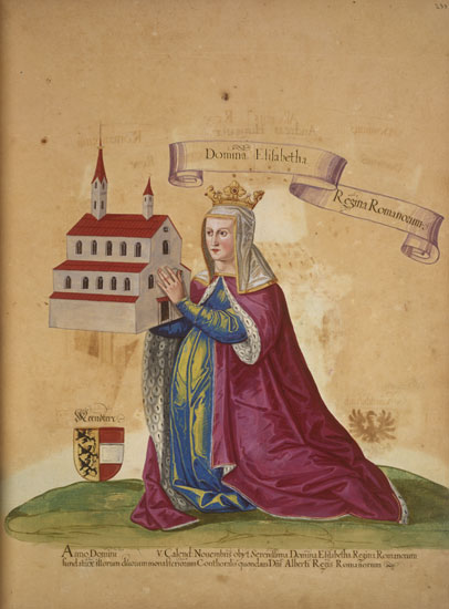 Elisabeth of Gorizia-Tyrol